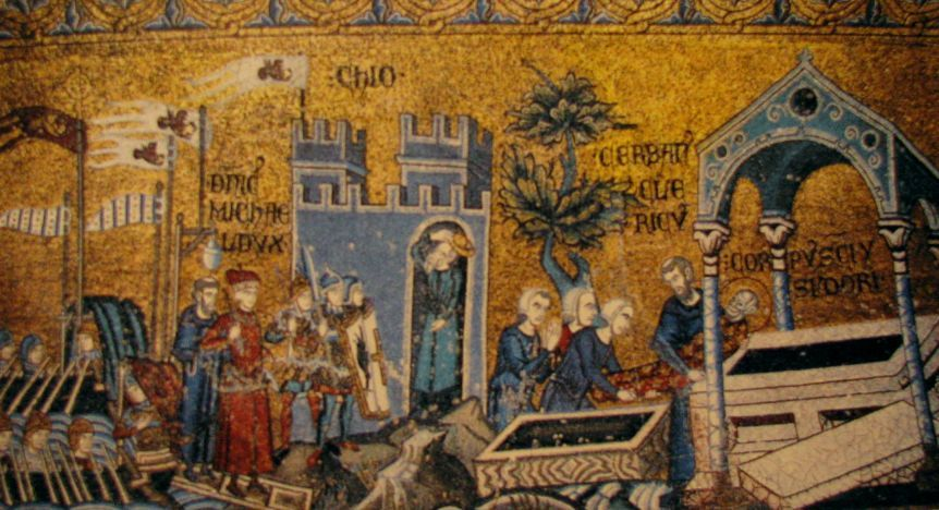 Mosaic in St. Isidor chapel in basilica San Marco